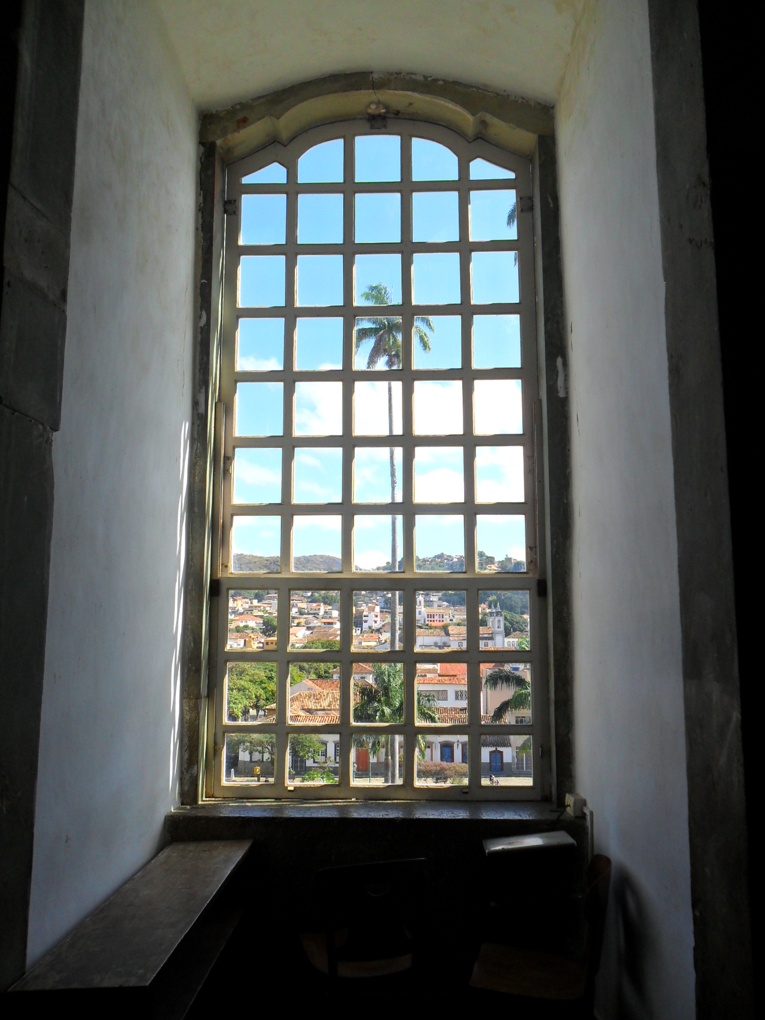 Downtown São João del Rei as seen from the tower of St. Francis of Assisi church